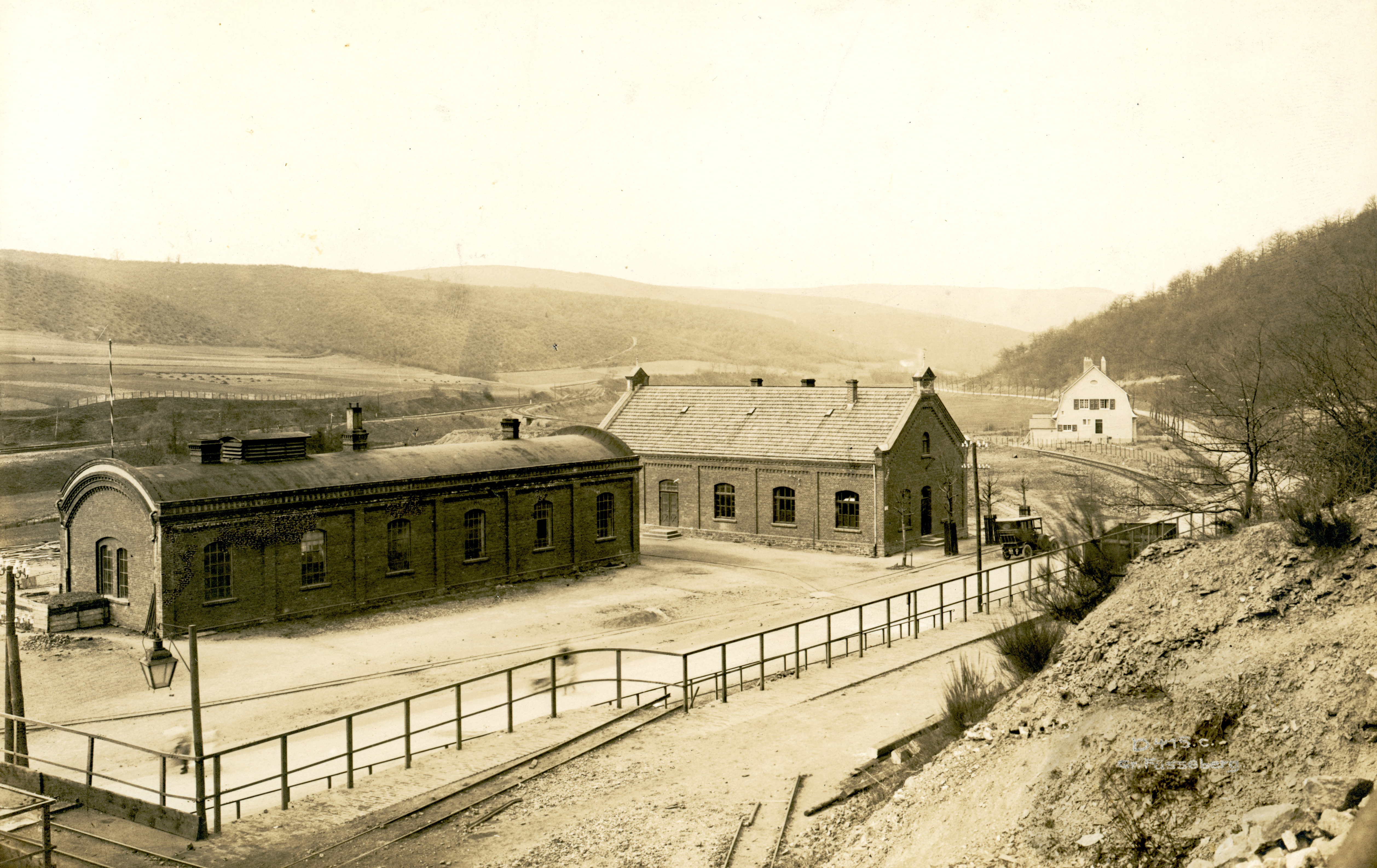 Füsseberg mine 1913. View to the west.